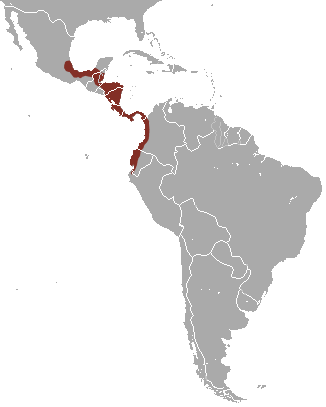 Central American Woolly Opossum (Caluromys derbianus) range